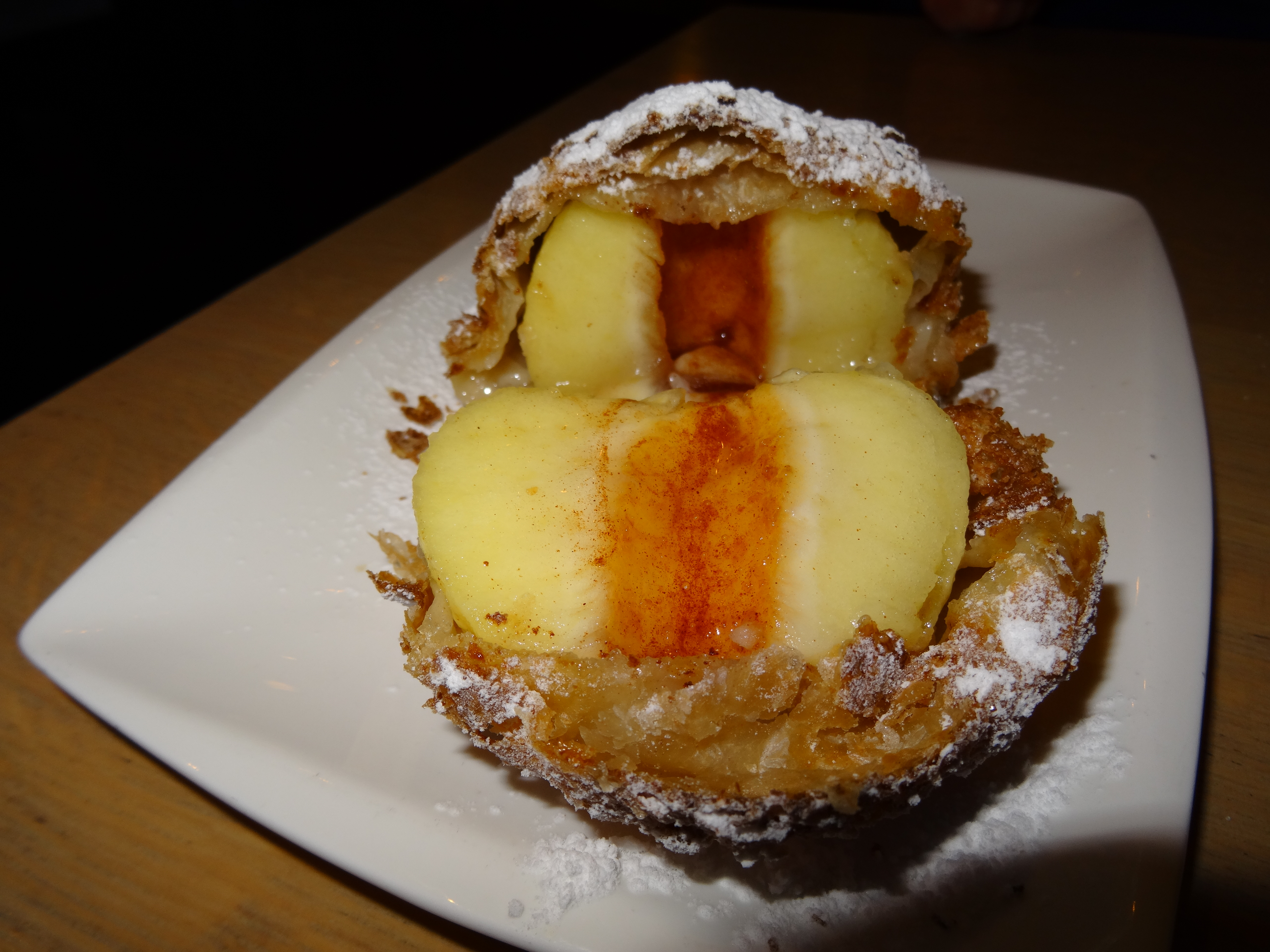 Appelbol – a traditional Dutch pastry: a whole apple, after removing the the core and pips, is stuffed with sugar and cinnamon and eventually raisins, wrapped in puff pastry and baked. Here cut through the middle.